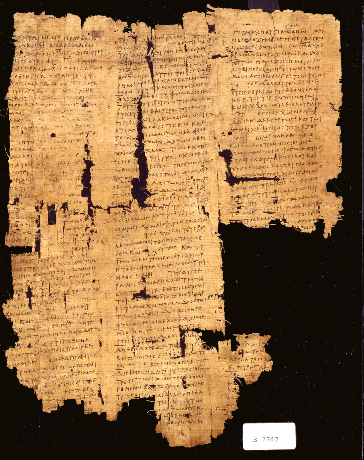 Papyrus Oxyrhynchus 16 (or P. Oxy. 16, P. Oxy. I 16, P. Oxy. 1 16) University of Pennsylvania Museum, E2747 Fragment of the fourth book of the History of the Peloponnesian War by Thucydides (chapters 36-41)